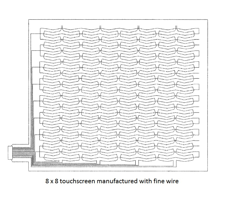 8 x 8 projected capacitance touchscreen manufactured using 25 micron insulation coated copper wire embedded in a clear polyester film.